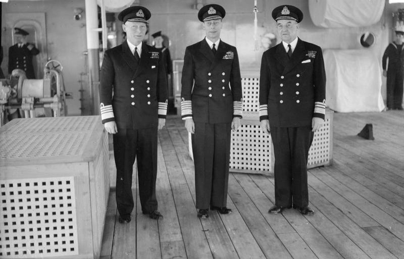 The King Pays 4-day Visit To the Home Fleet. 18 To 21 February 1943, Scapa Flow, Wearing the Uniform of An Admiral of the Fleet, the King Paid a Four Day Visit To the Home Fleet. The King with Admiral Sir John Tovey , (Left) C-in-C, Home Fleet, and Rear Admiral A L St George Lyster, CB, CVO, DSO, aboard HMS INDOMITABLE.